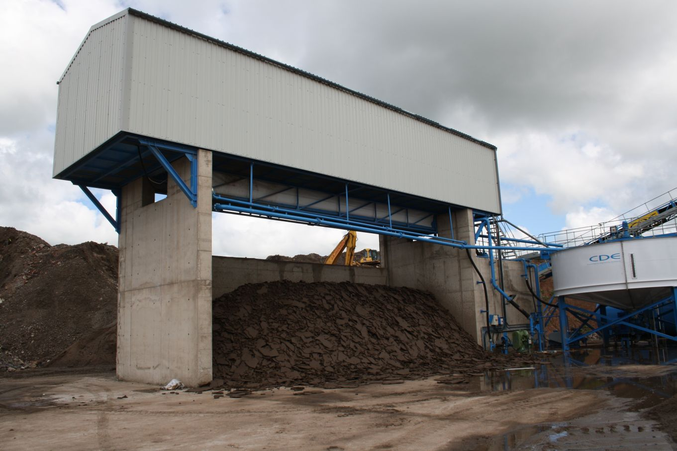 Filter press enclosure and filter cakes